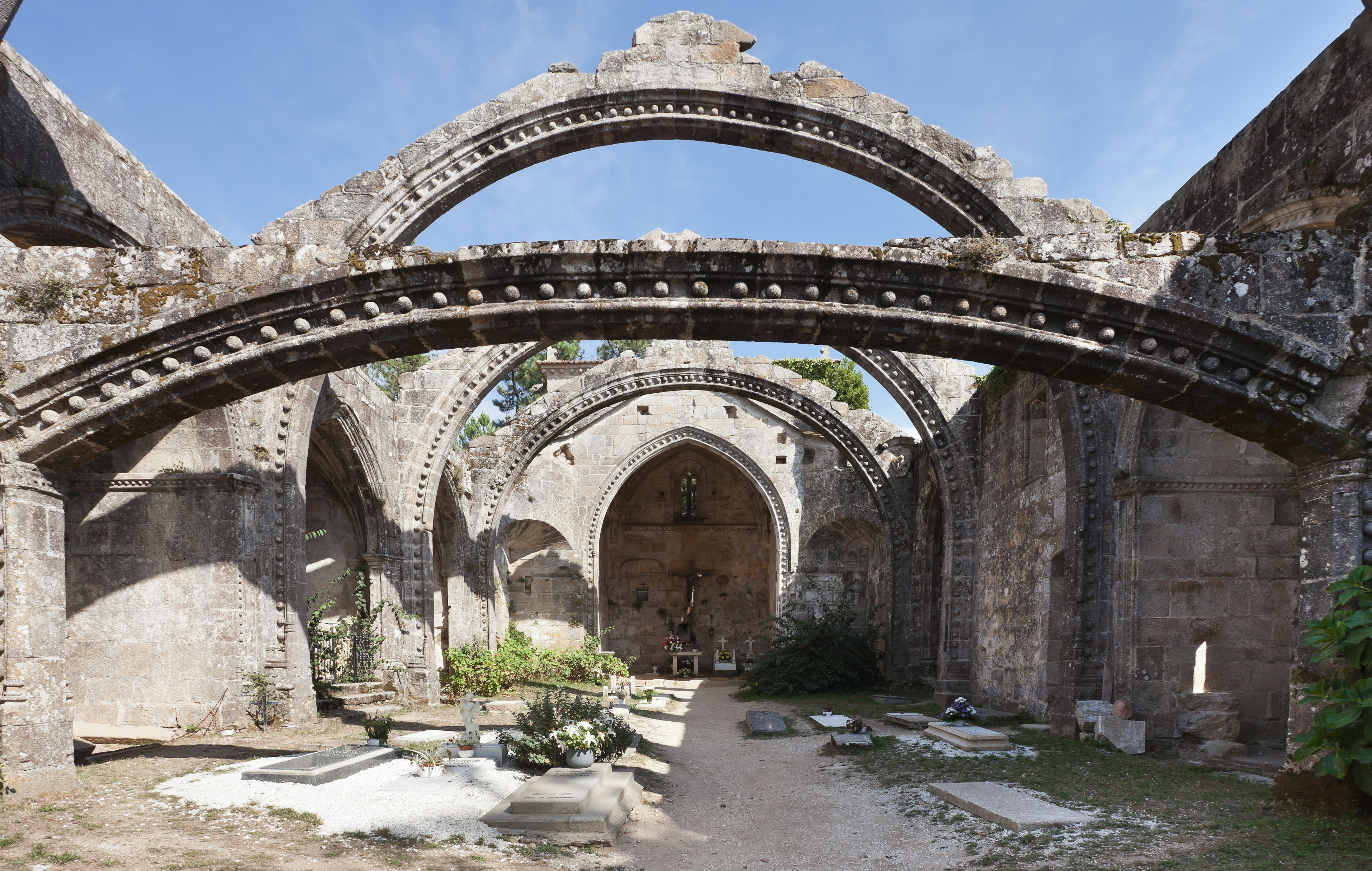 Ancient Saint Mary church in Cambados, Galicia (Spain)